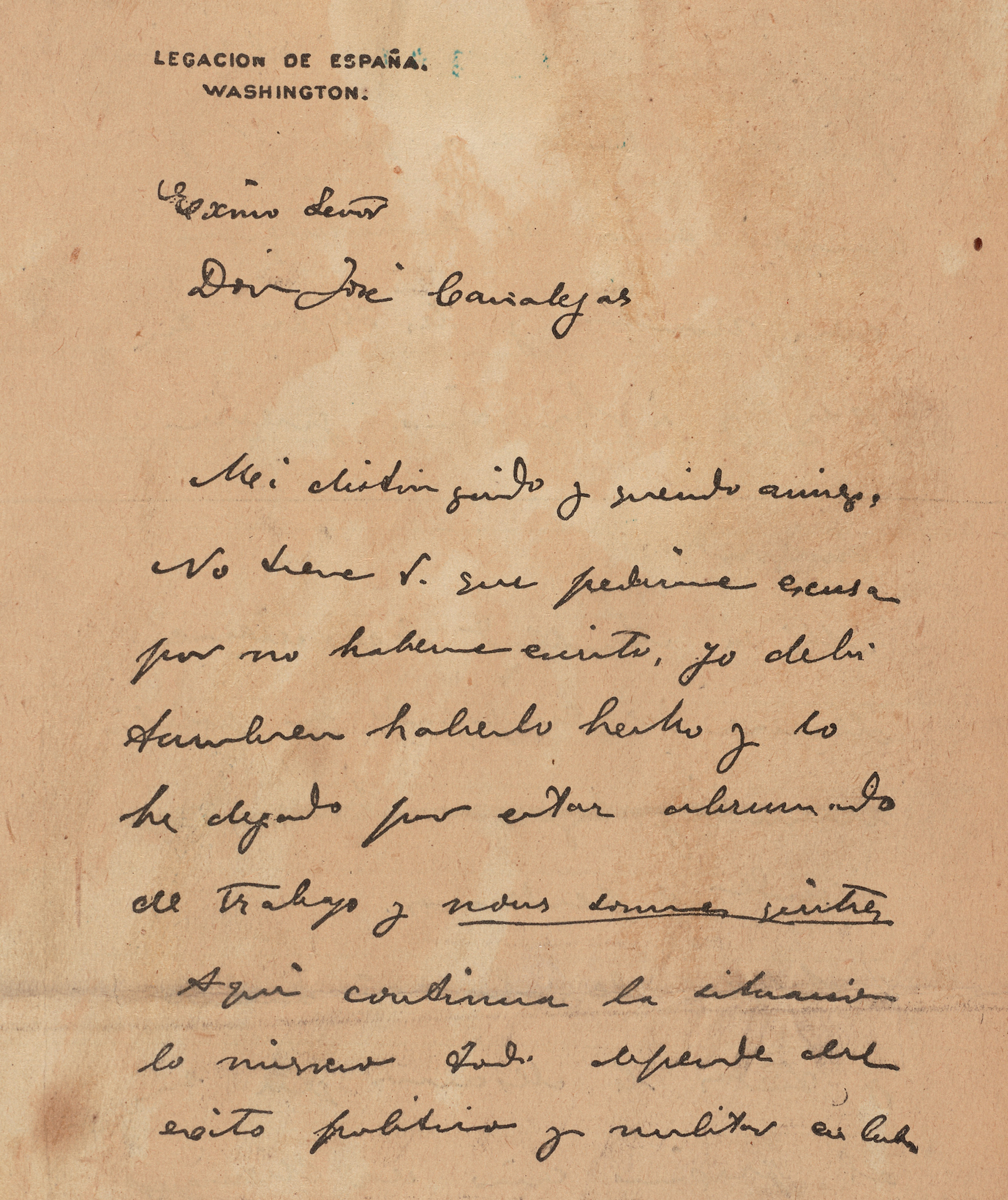 Page 1 of Enrigue Dupuy de Lôme's letter to Don José Canelejas, the Foreign Minister of Spain, about American intervention in Cuba - February, 1898.